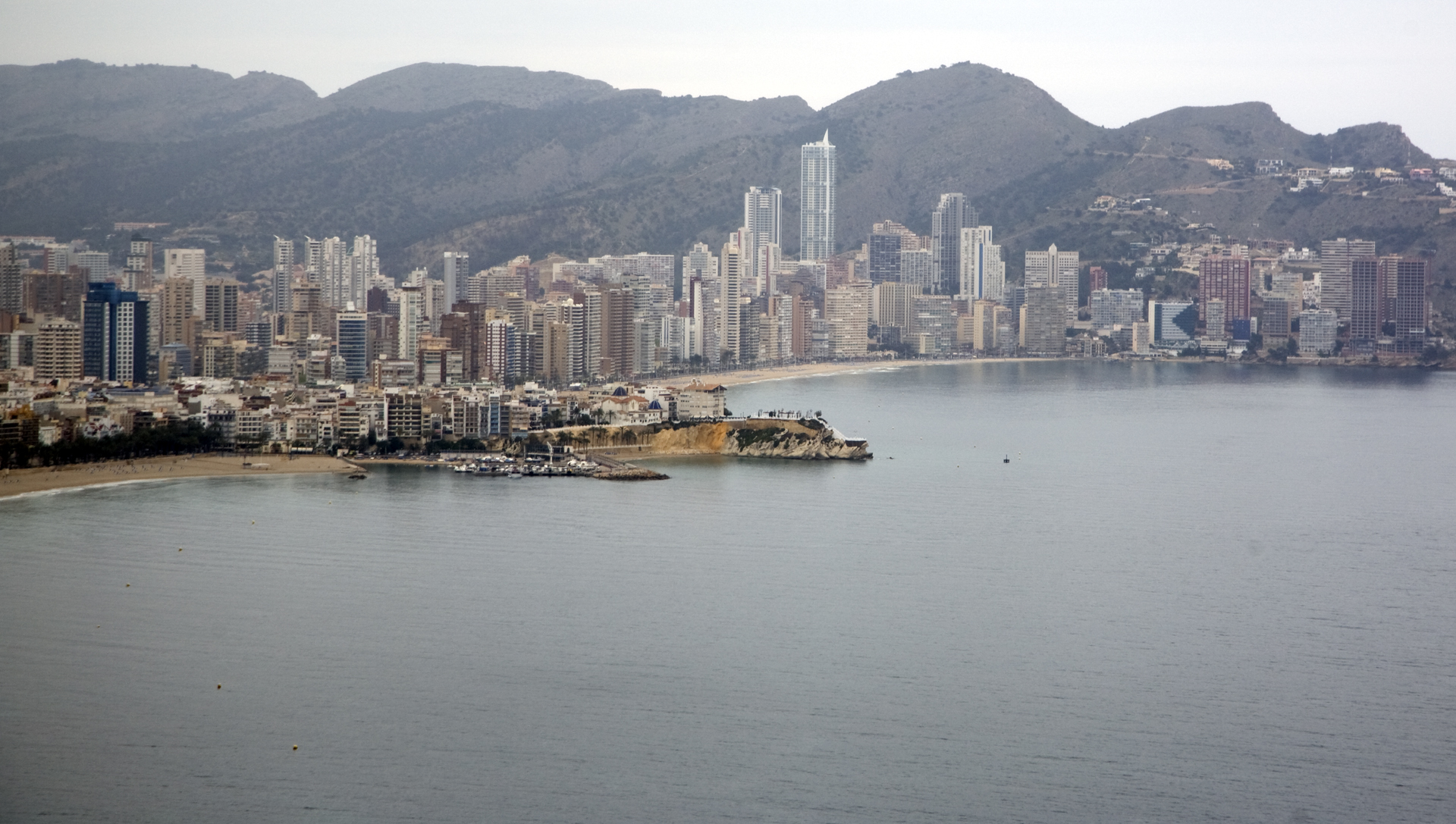 View of Benidorm from Gran Hotel Bali